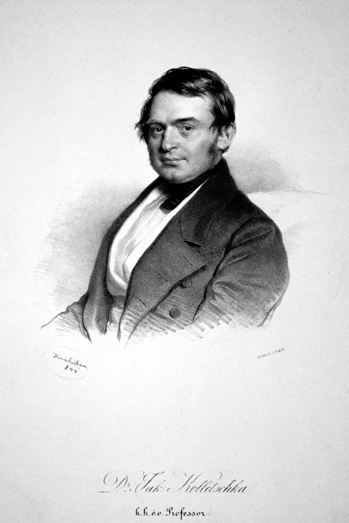 Jakob Kolletschka (1803-1847), Austrian Physicist Lithograph by Josef Kriehuber, 1844